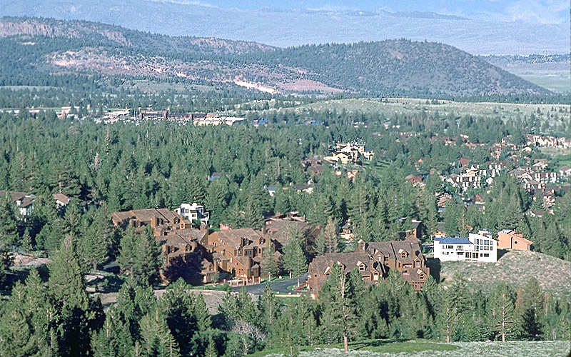 Caption from the source page: View of the Town of Mammoth Lakes and the resurgent dome from along road to the Lakes Basin. From the USGS's Long Valley Observatory website [1]